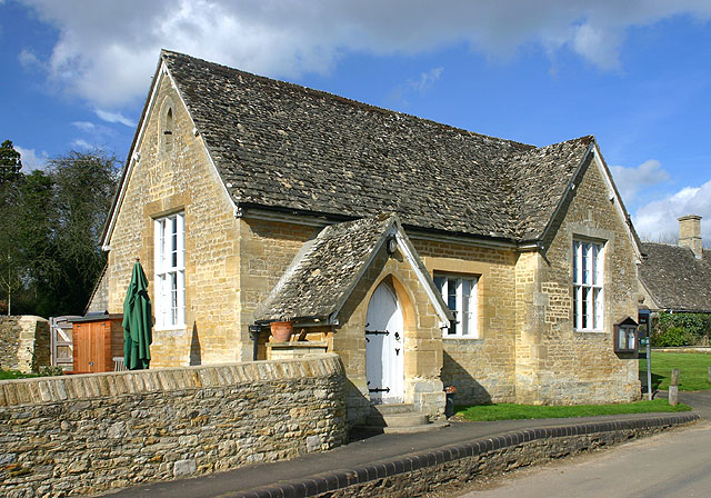 The former parish school at Glympton, Oxfordshire